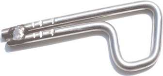 original Bühlerbolt (Bühlerhaken), constructed and produced by Oskar Bühler